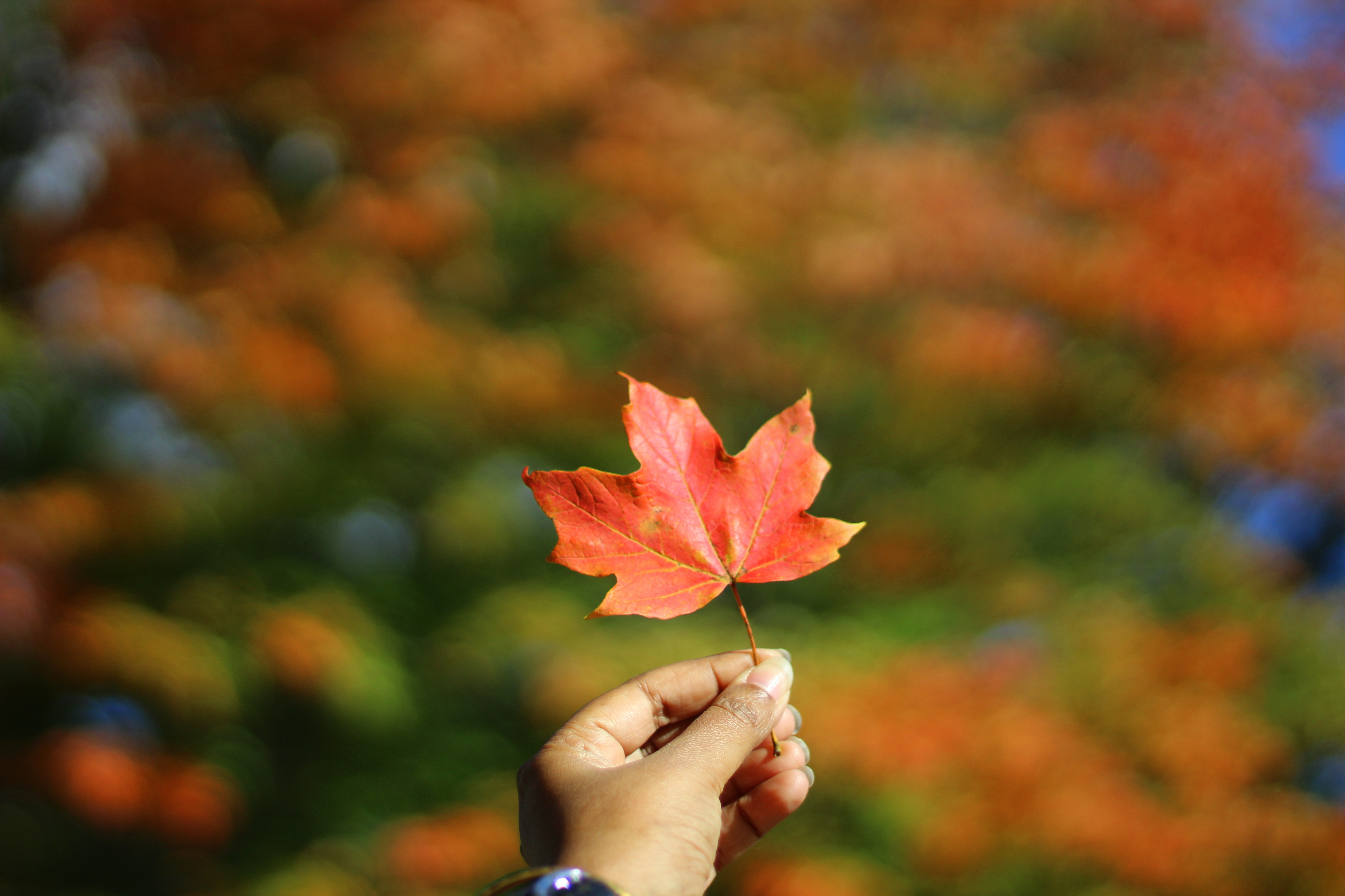 In Japan and China the maple leaf stands for the sweet love that is experienced in daily life. According to the people of North America, the maple leaf promotes intimacy among lovers. This photo has been taken in the country: United States of America